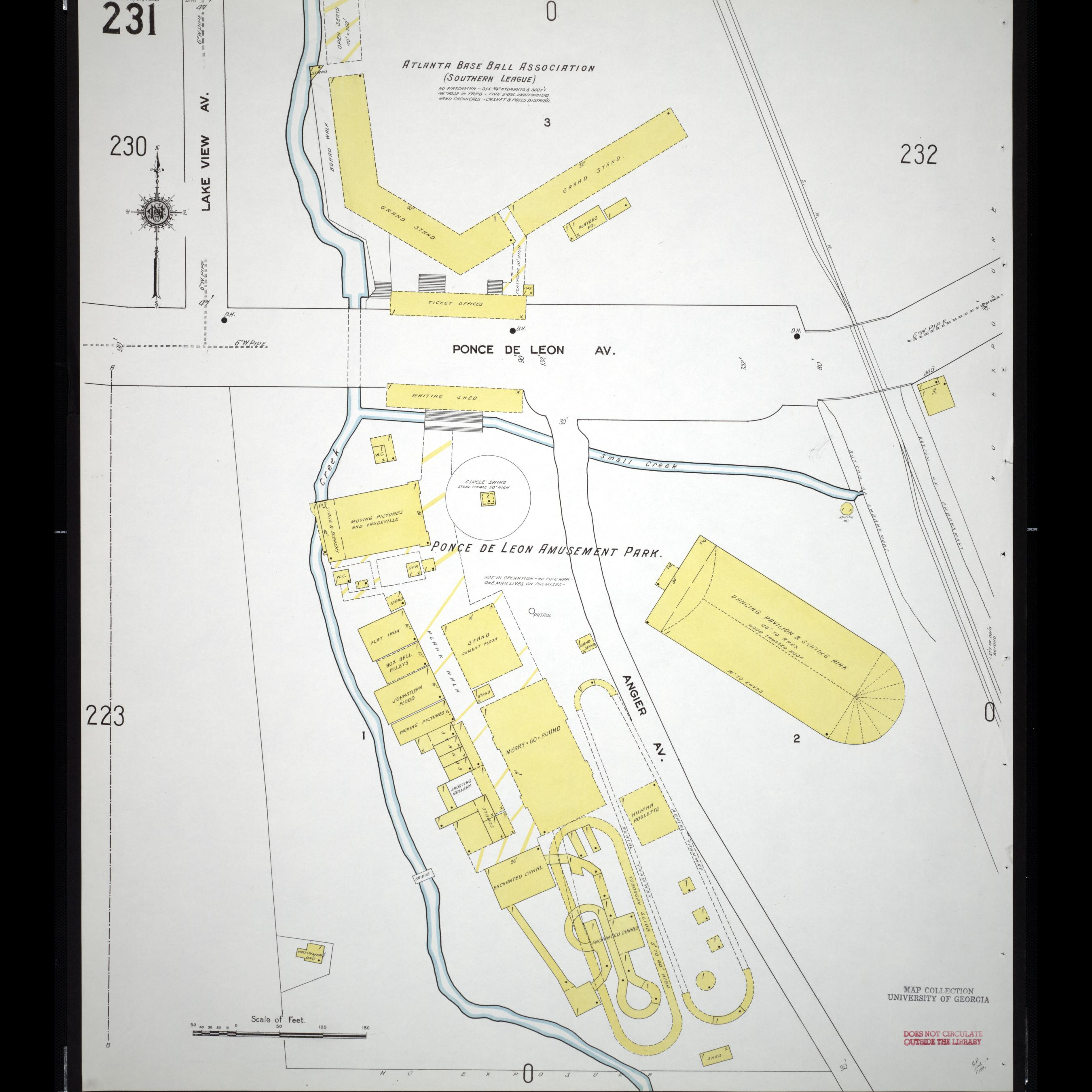 Fire map showing Ponce de Leon Amusement Park, 1911